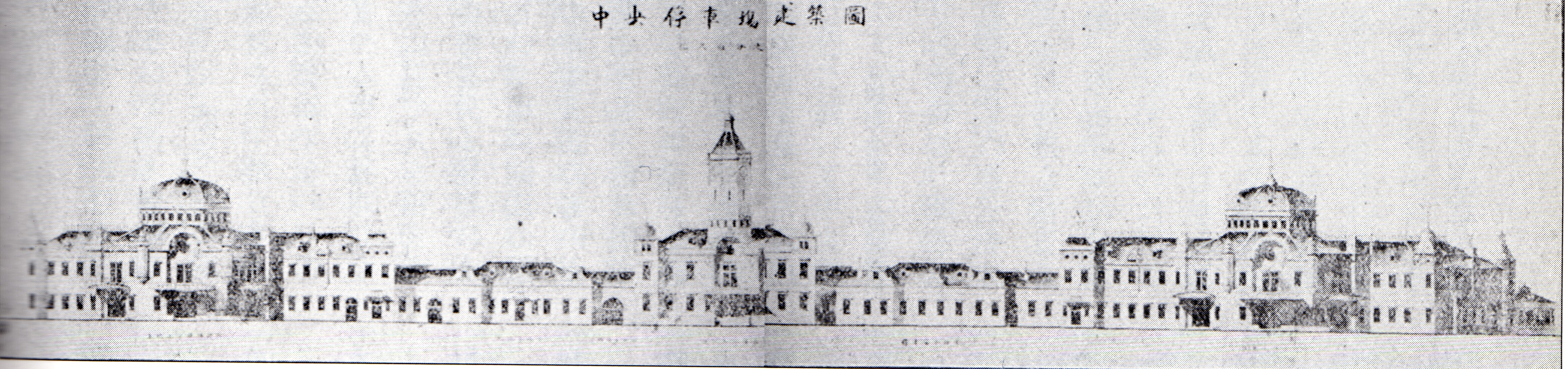 Second plan of Tokyo station building designed by TATSUNO Kingo